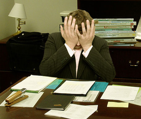 A frustrated man sitting at a desk.